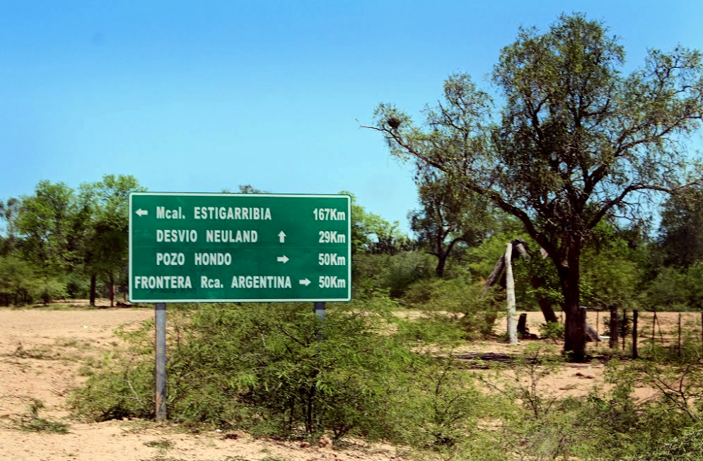 Highway sign at Cruce Don Silvio in Boquerón Department, Paraguay